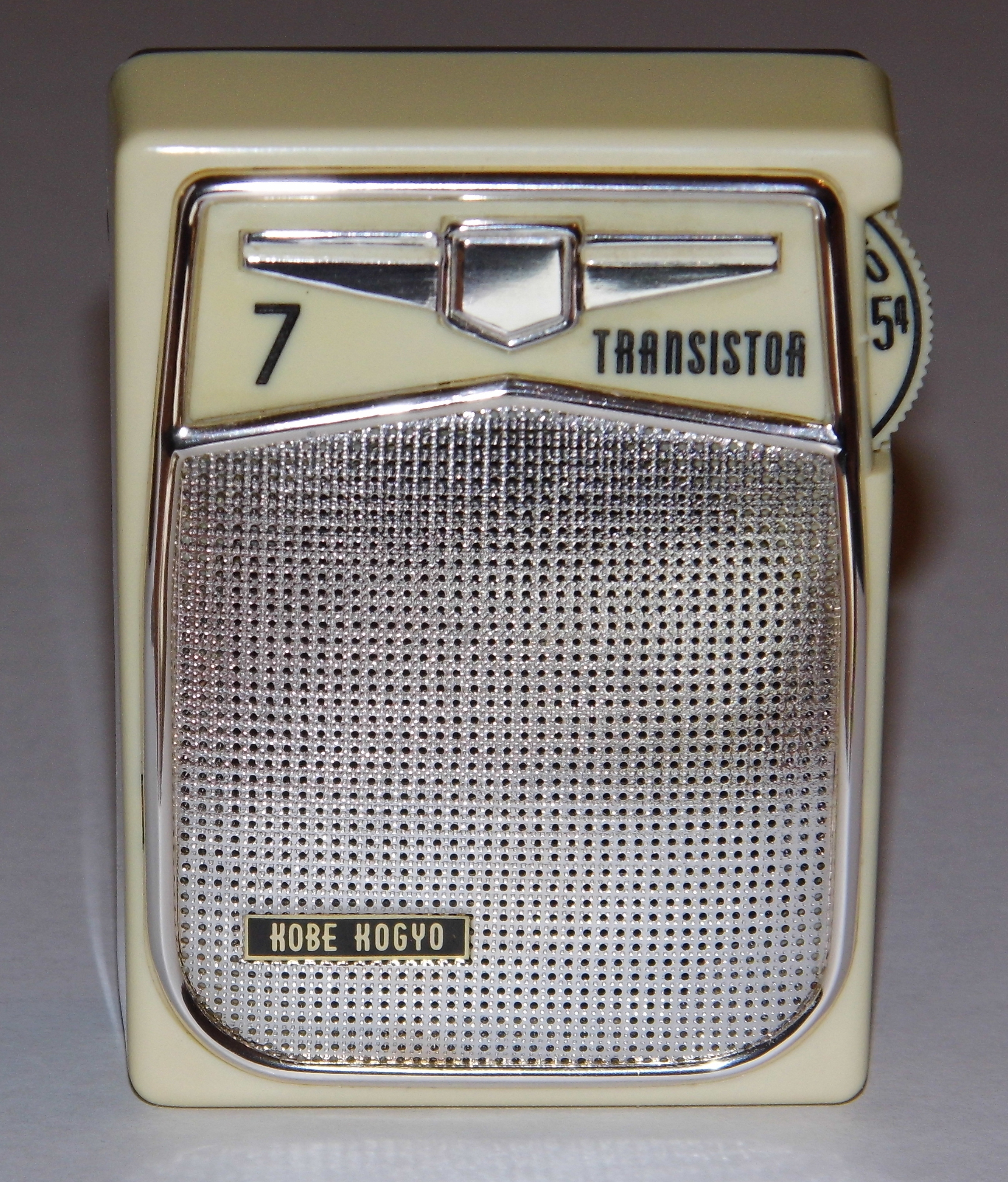 A very small radio with great styling.